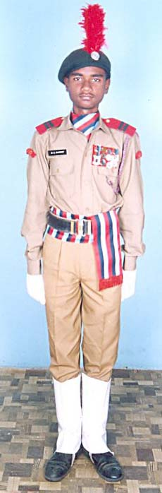 This is how a NCC Cadets get dressed